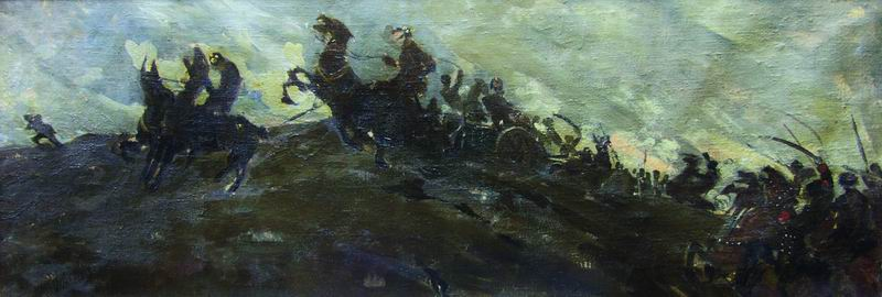 Valerian Sidamon-Eristavi (1889–1943). King Erekle II battling the Lesgians.